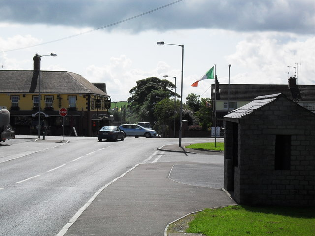 Culloville village Also Cullaville. It has the distinction as the southernmost village in Northern Ireland - being right at the southern tip of County Armagh, two miles south of Crossmaglen, on the Castleblayney to Dundalk road.